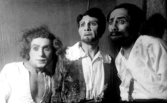 Hajiyev, Sharifzade and Gurbanov (The Robbers). Turkic Arristic Theater. 1929-30.